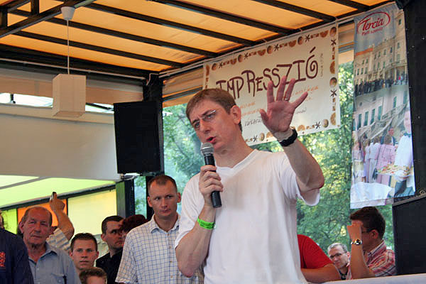 Ferenc Gyurcsány, Prime Minister of Hungary at a music festival in Q&A.